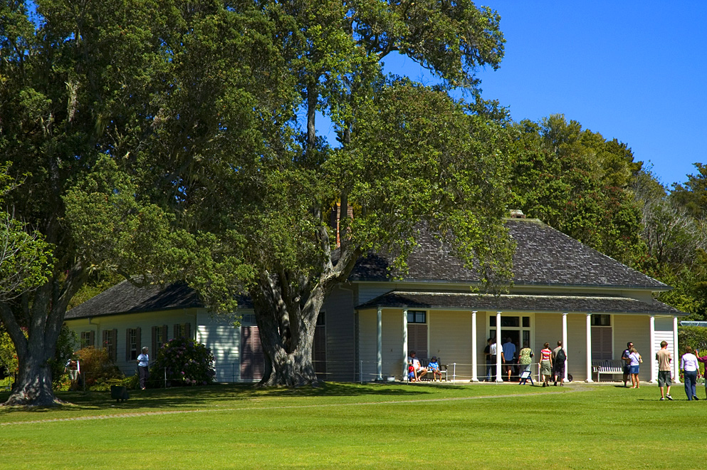 Waitangi House, Waitangi, Bay of Islands, Far North, Northland, North Island, New Zealand